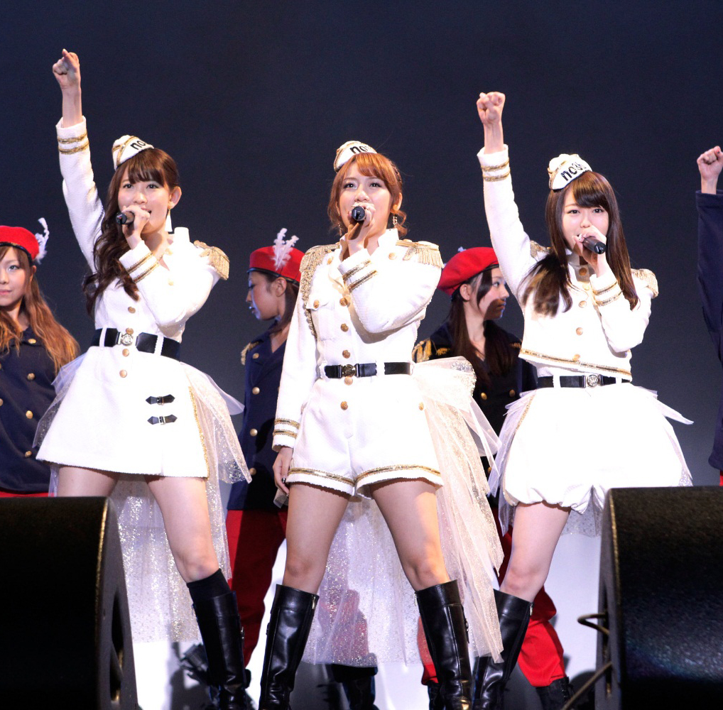 No Sleeves live performance of Kirigirisu Jin at Differ Ariake Arena